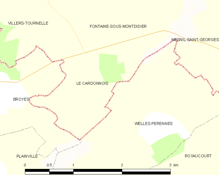 Map of French municipality Le Cardonnois